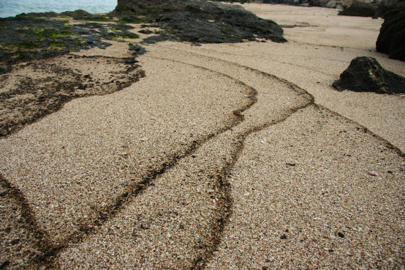 gas smuggling effects on qeshm beach,iran